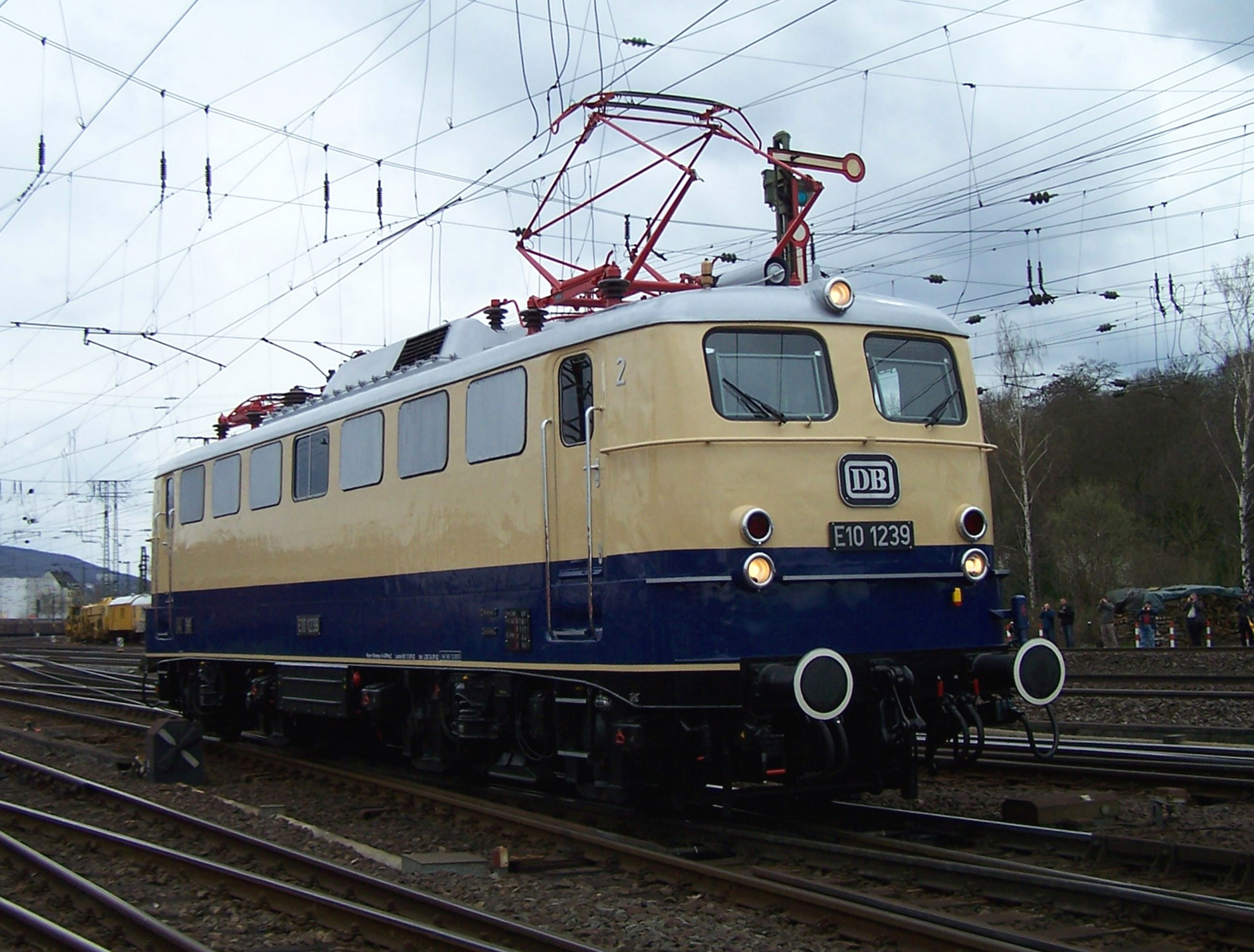 Electric locomotive E10 1239 during a locomotive parade at the DB Museum in Koblenz-Lützel, a local branch of the Transport Museum in Nuremberg, April 2010